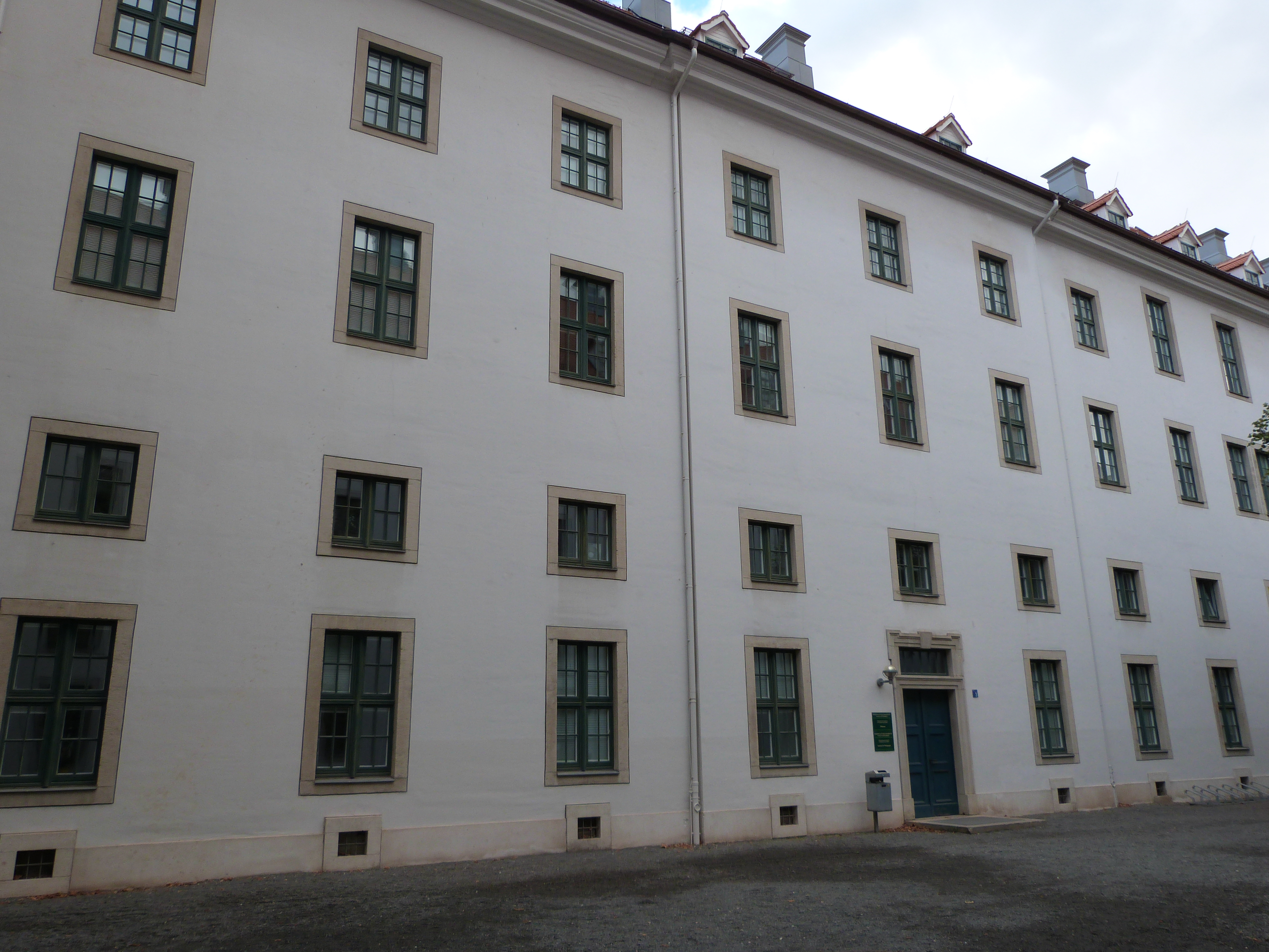 Houses 2-4, former orphanage for boys, Francke foundations in Halle (Saale), today university buildings